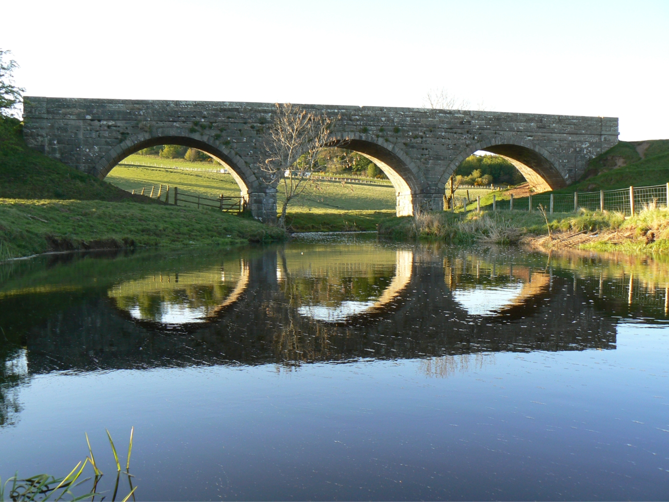 Picture of the Three-Arched-Bridge that crosses over the Medwyn river in South Lanarkshire, Scotland.